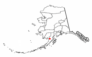 Adapted from Wikipedia's AK borough maps by Seth Ilys.